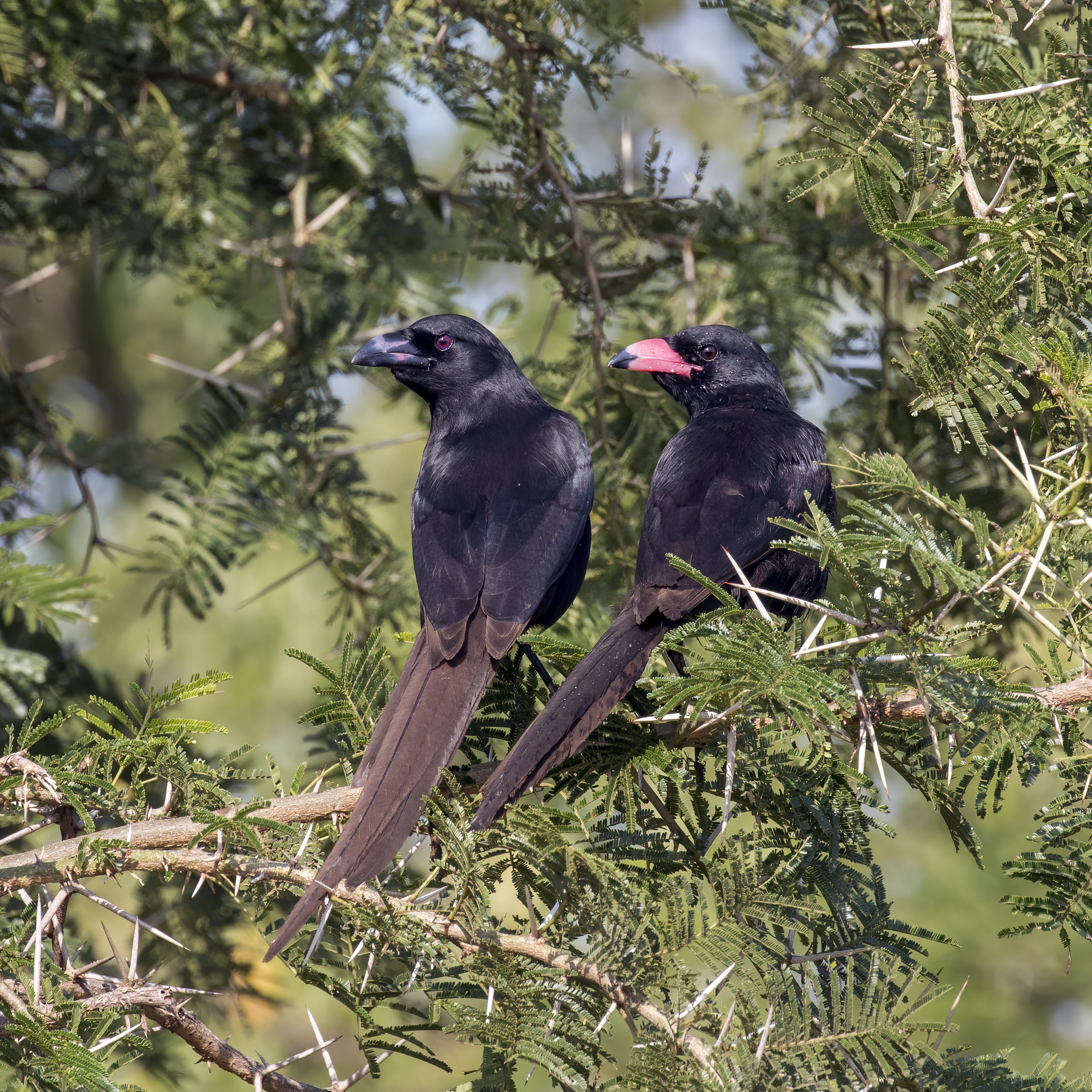 PIapiac (Ptilostomus afer) sub-adult (l) and immature (r), Semiliki Wildlife Reserve, Uganda